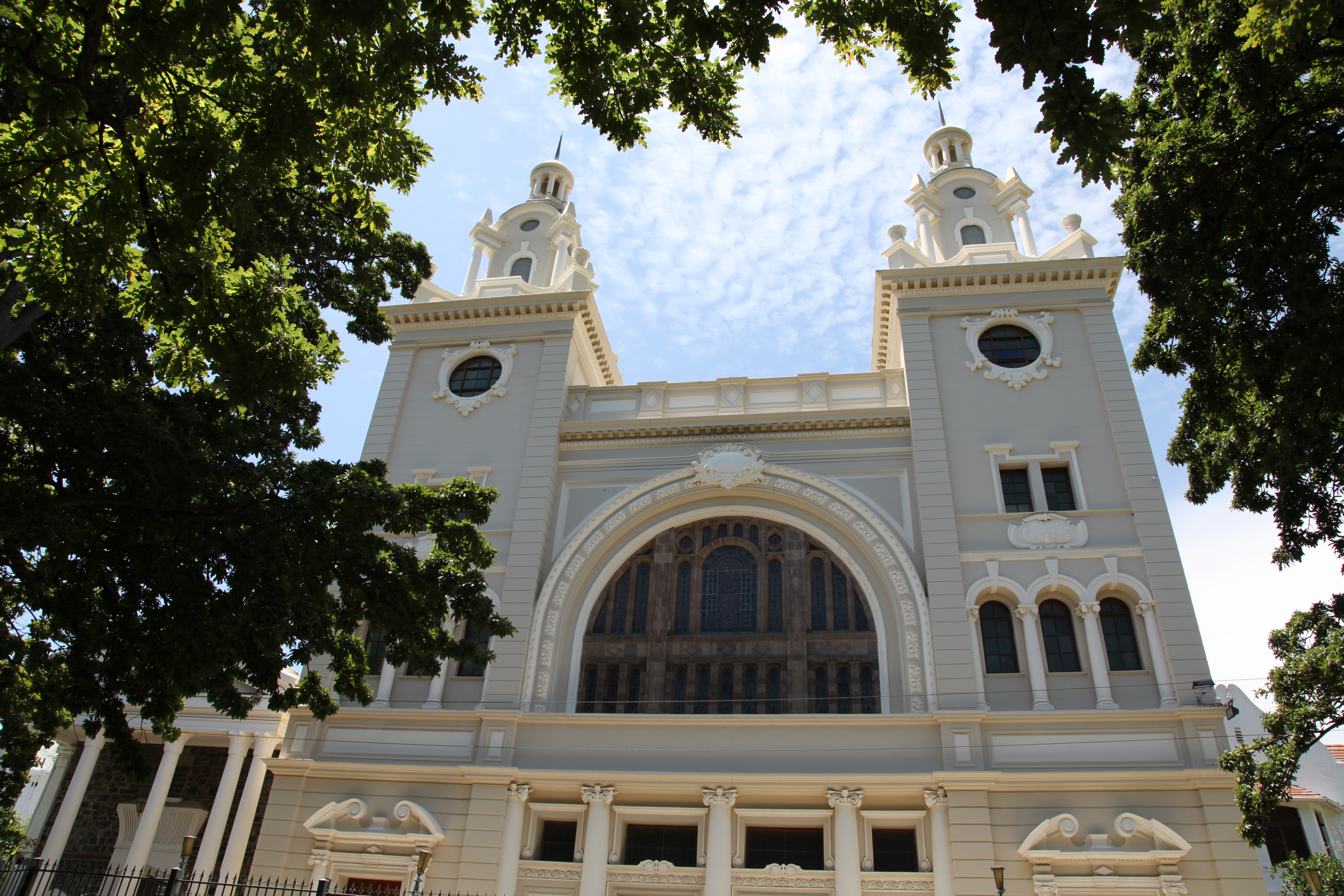 The Great Synagogue was built in 1904 after designs by Parker & Forsyth.